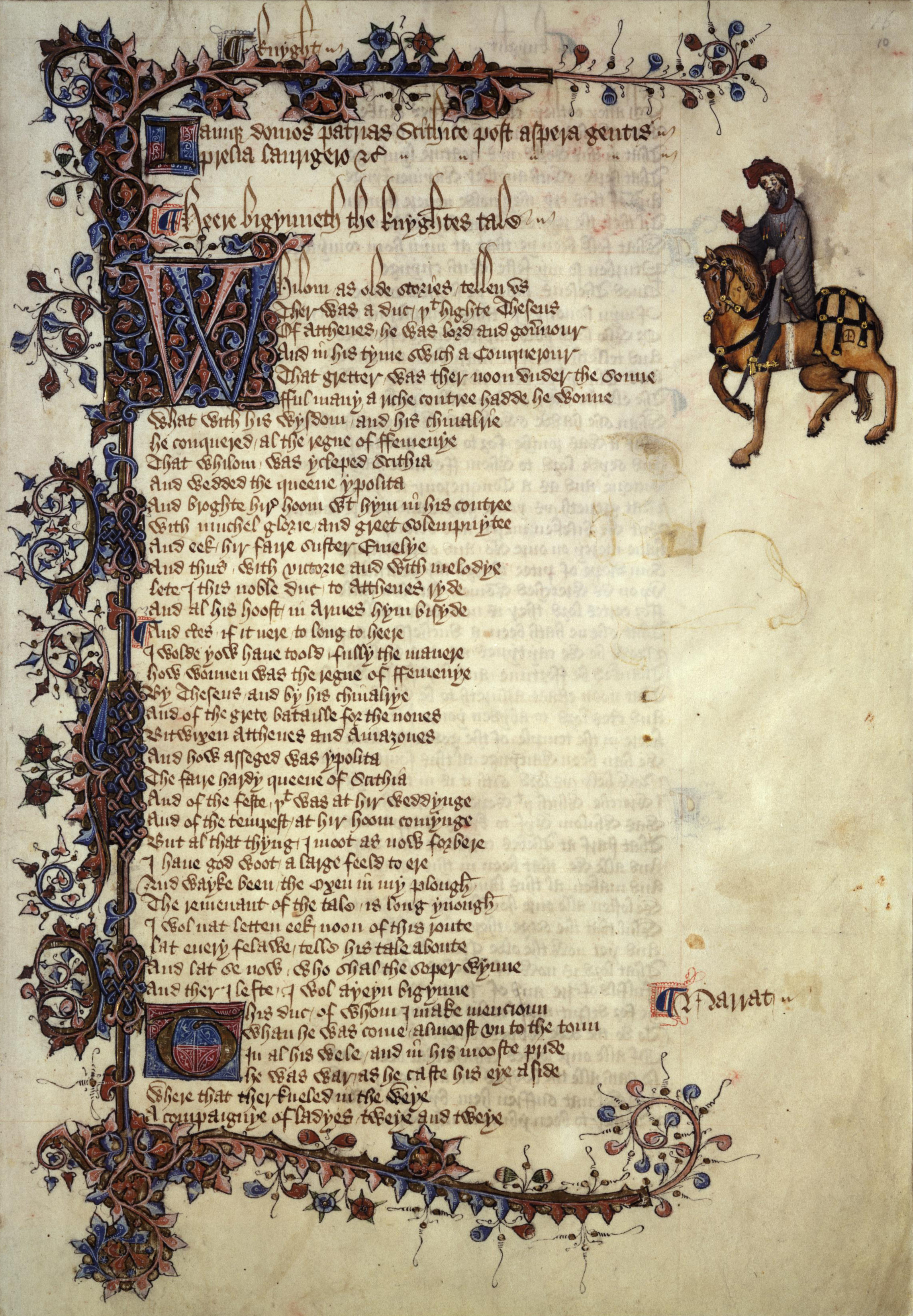 Scan of Ellesmere manuscript of Canterbury Tales. The first page of Knight's Tale.